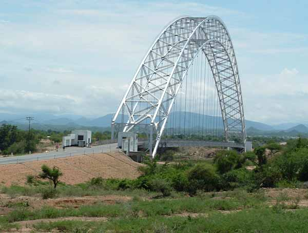 Birchenough Bridge, Zimbabwe